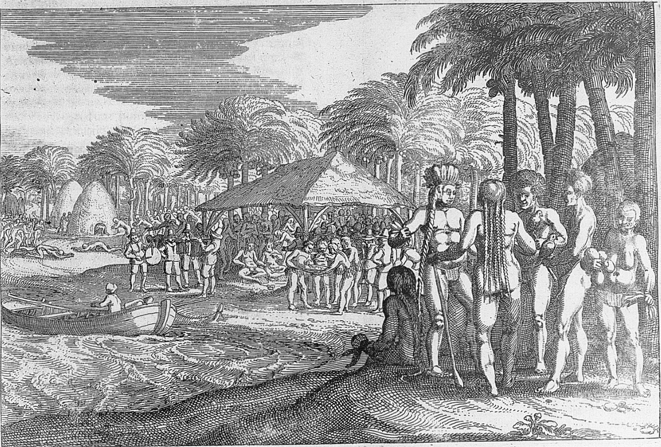 Engraving from the book Journal ou description du merveilleux voyage de Guillaume Schouten fais les années 1615,1616 et 1617 showing Futunan people, inhabitants of the island of Futuna (called Hoorn island by the Dutch explorers).